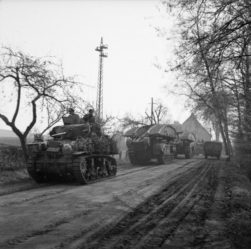 The British Army in North-west Europe 1944-45 Stuart tanks and a pair of Churchill bridgelayers of 4th Armoured Brigade pass through the village of Voltlage, 9 April 1945.